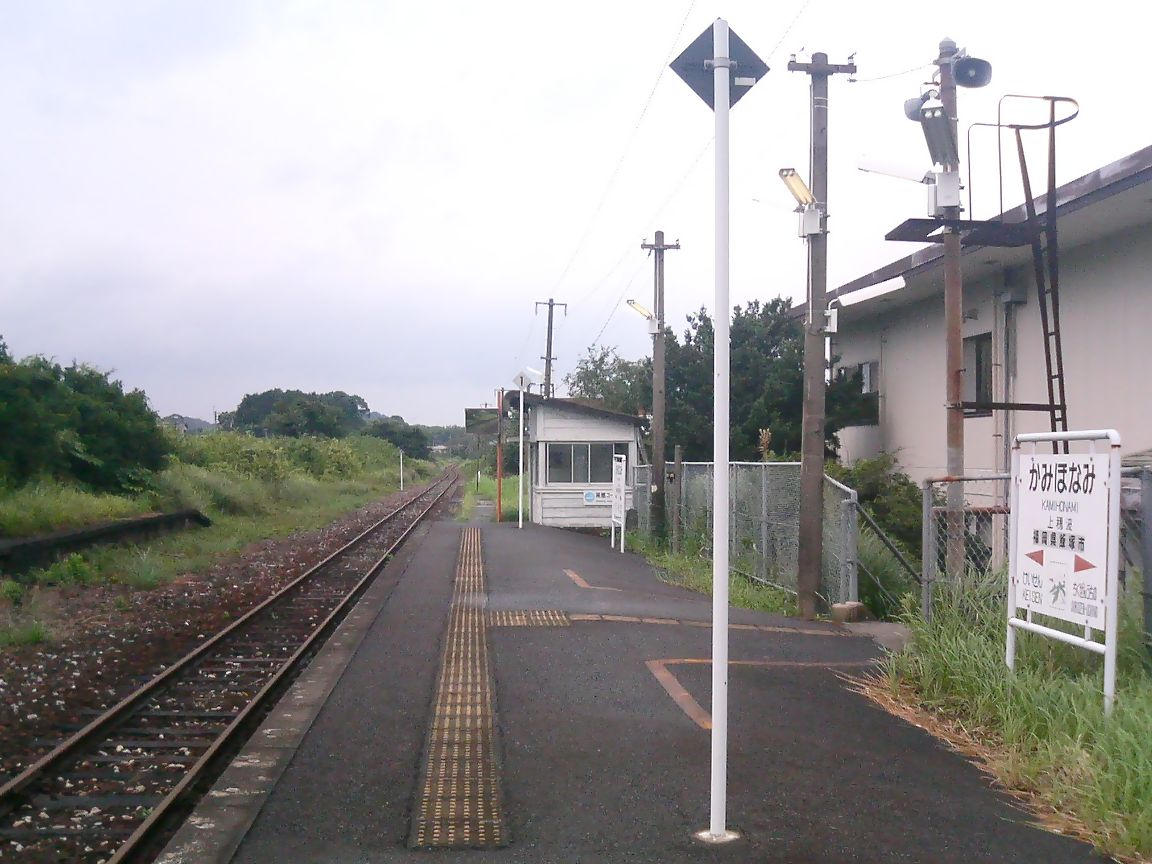 The platfome of Kamihonami Station.